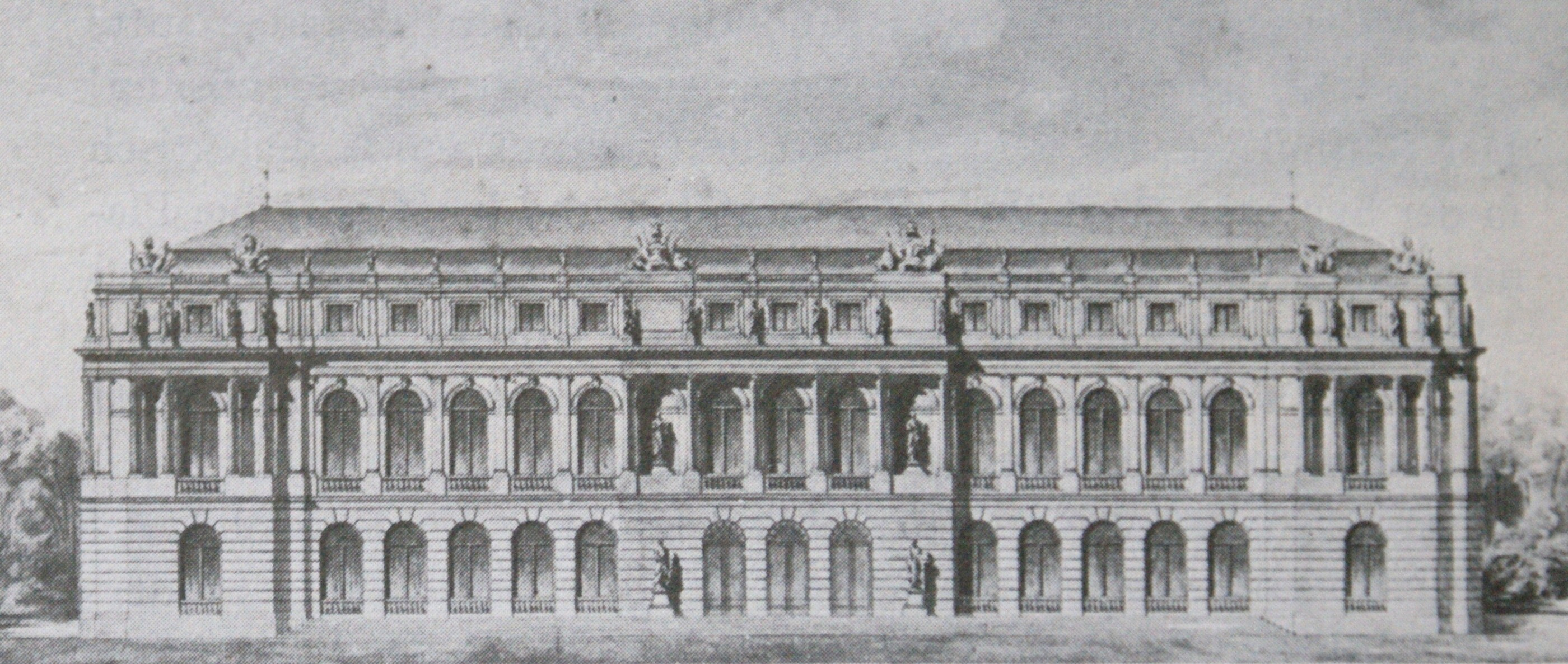 Drawing by Georg von Dollmann, project for the later palace of Herrenchiemsee